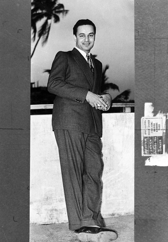 BOMBAY OFFICE/January,1956,A14fMukesh – a famous play back singer in the Indian Film Industry. The handsome artists has also tried his hand at acting and producing.Photo Number:-50332